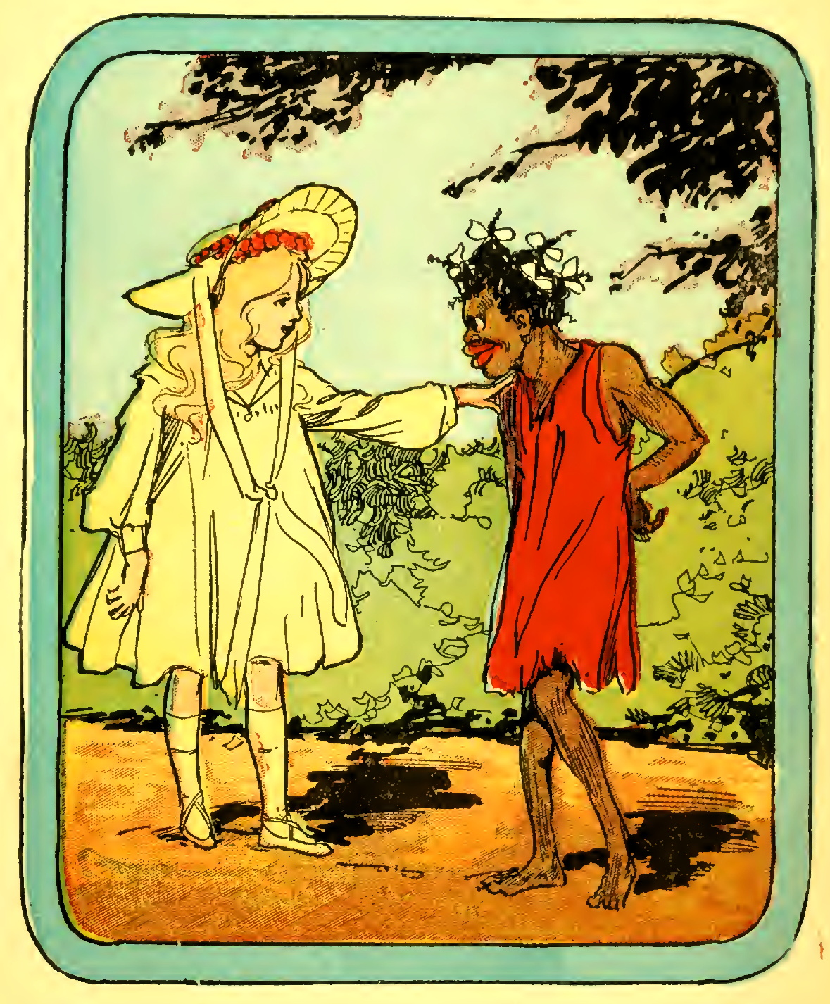 There was something in the black child that touched the kindly heart of little Eva, who, though but a child herself, had, by reason of long illness, grown old beyond her years. "Poor Topsy," she said kindly, "you need never steal again. You are to be taken care of now. I'd give you anything of mine rather than have you steal it."